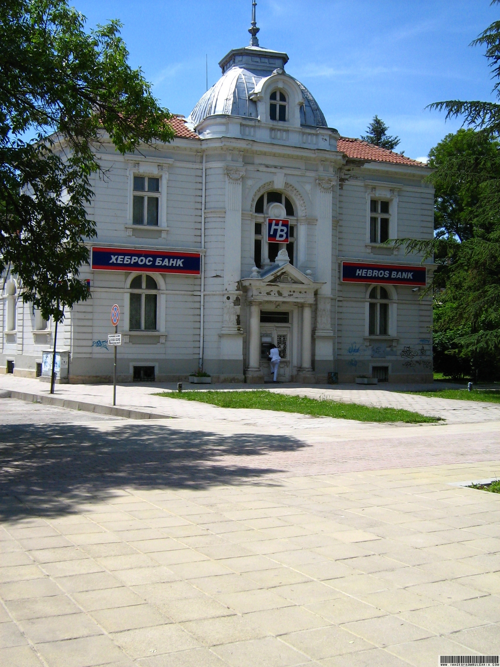 Targovishte, Bulgaria